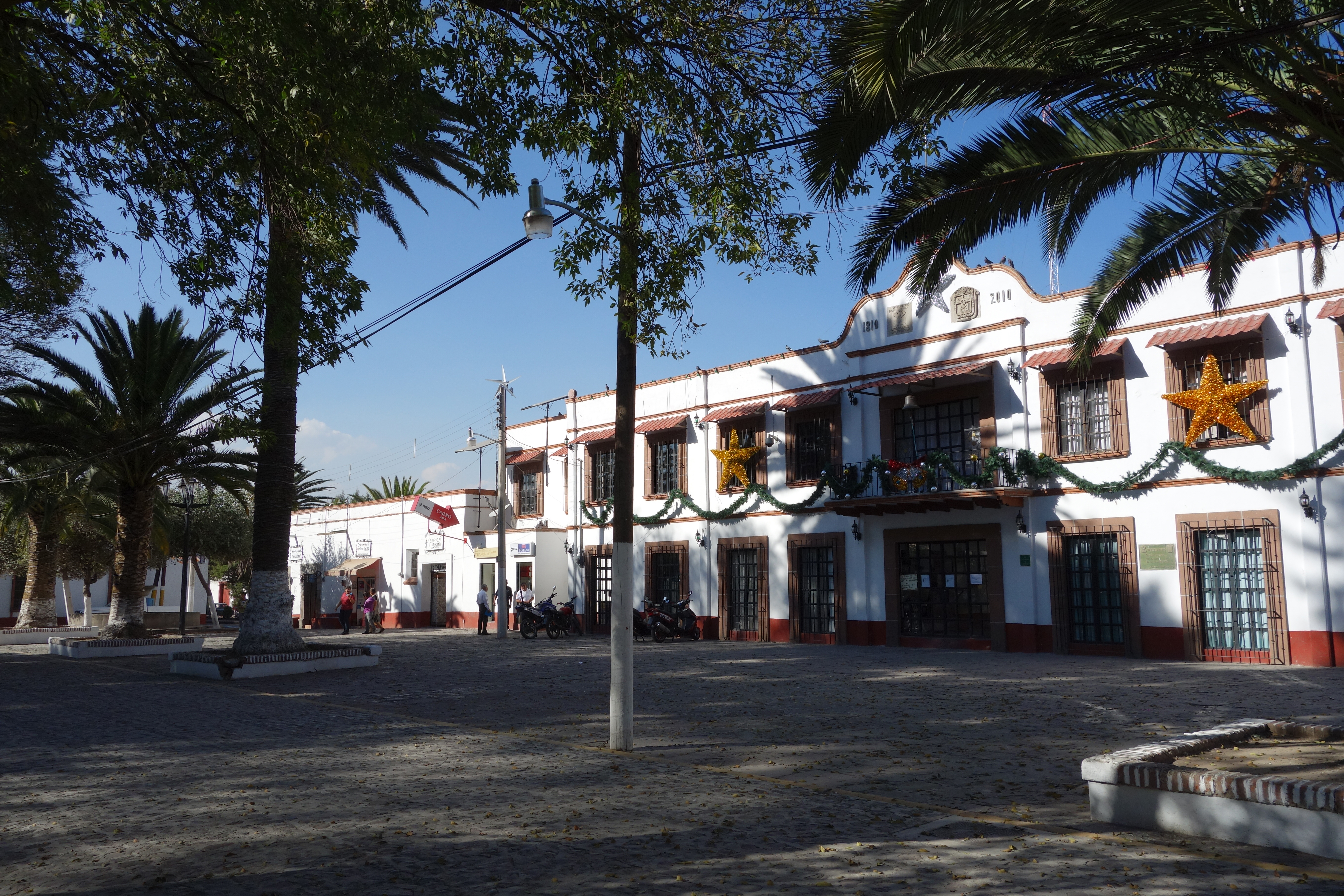 Municipal palace of Tepetlaoxtoc in México State